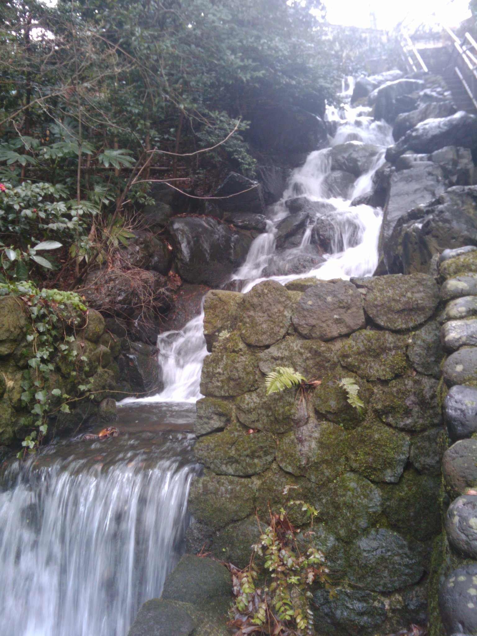 The Tatsumi Canal (Falls) in Kanazawa, Ishikawa, Japan